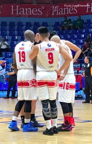 The San Beda Red Lions during their Filoil preseason game against the Letran Knights on 11 Jun 2017.